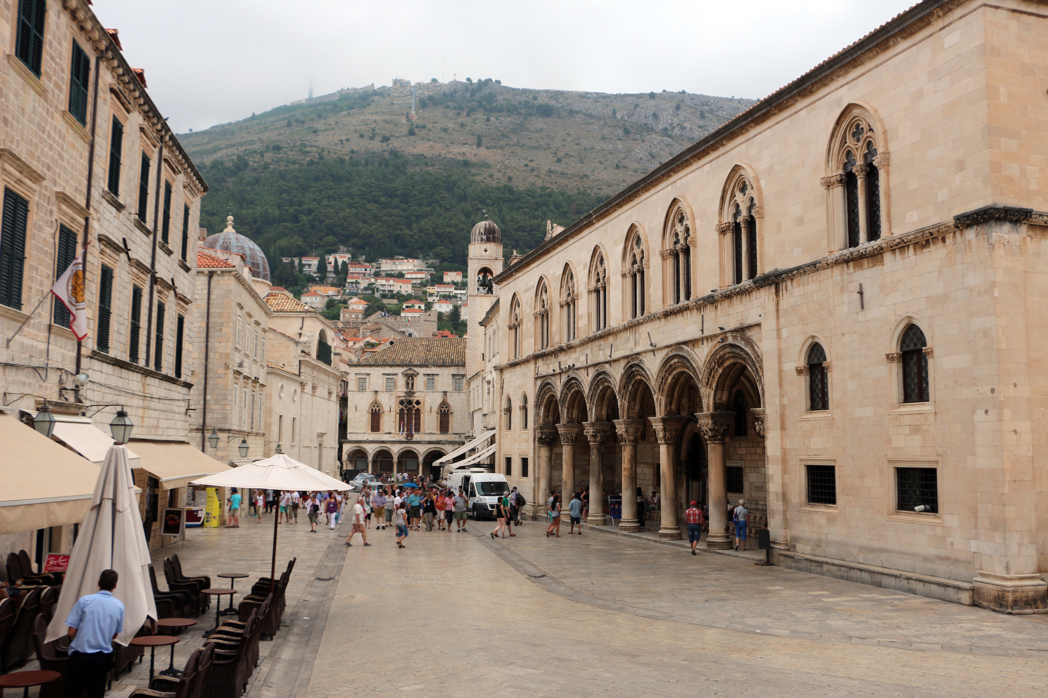 Rector's palace